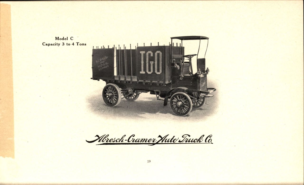 1911 Abresch-Cramer Model C 3-4 tn cabover stake truck This vehicle was pictured in the 1911 Abresch-Cramer truck catalogue